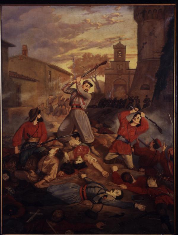 Fight of Papal Soldiers on Montelibretti 1867